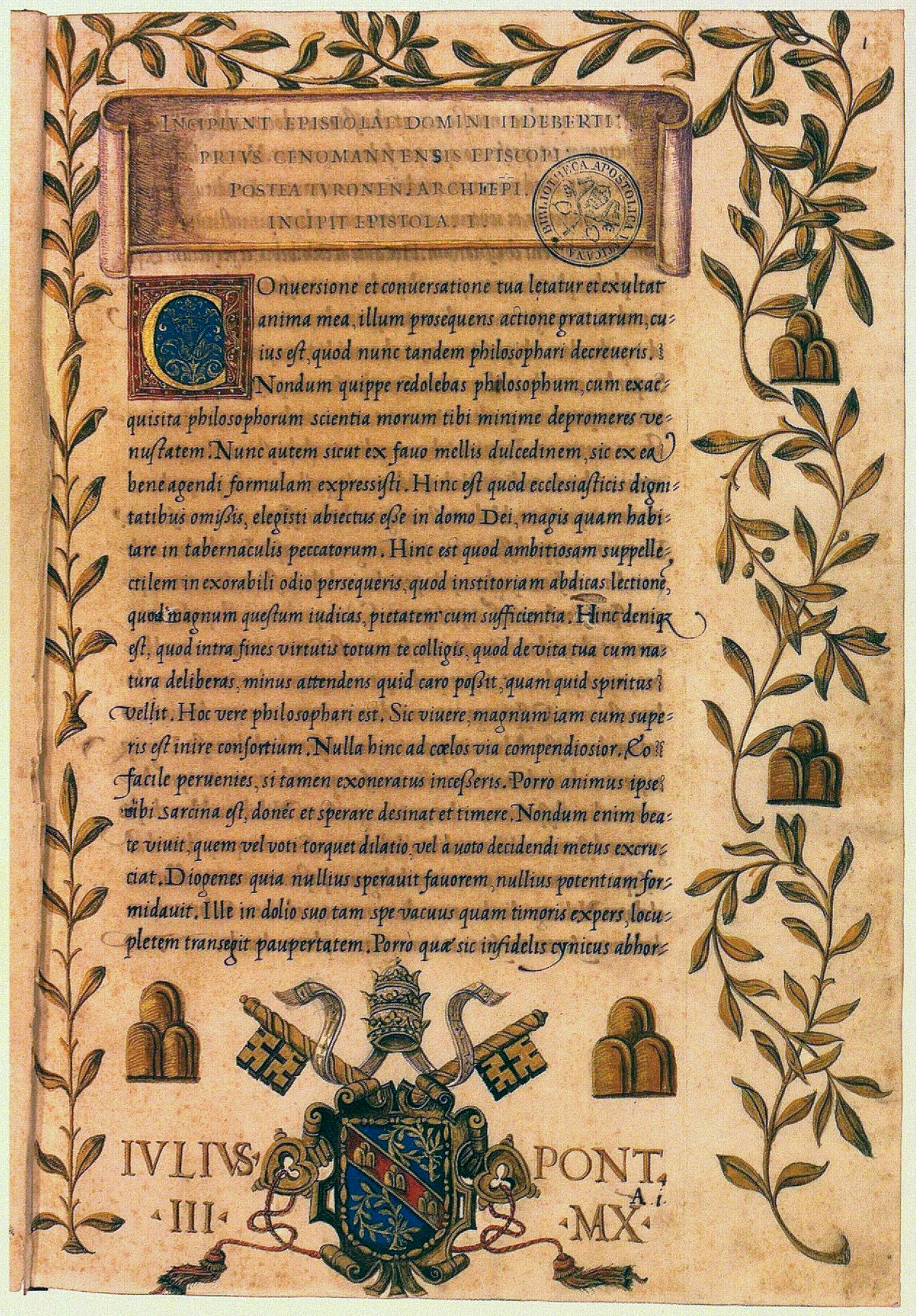 Hildebert’s letters in the manuscript Vatican City, Biblioteca Apostolica Vaticana, Vat. lat. 3841, fol. 1r.